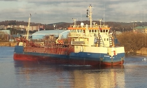 Hopper barge with opened hull